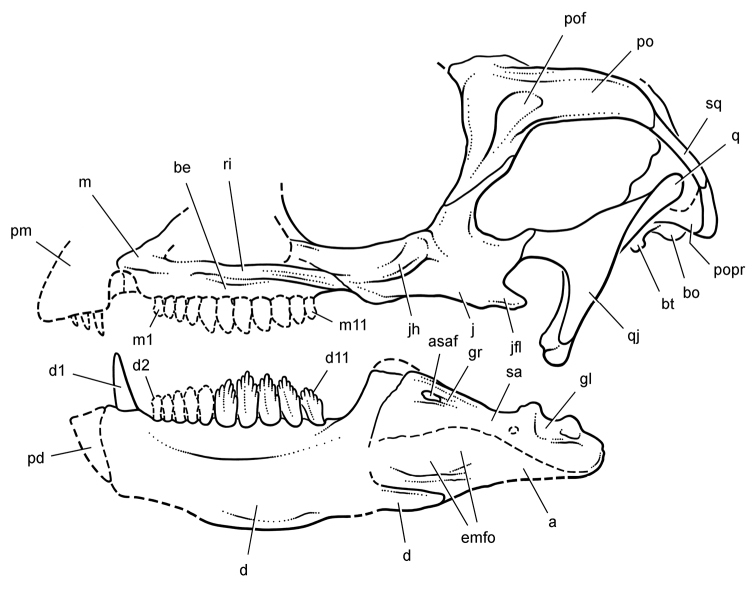 Partial skull of Manidens condorensis from the Middle Jurassic Cañadón Asfalto Formation of Argentina. Skull reconstructions in lateral view. Dashed lines indicate estimated edges. Abbreviations: a angular antfo antorbital fossa asaf anterior surangular foramen be buccal emargination bo basioccipital bt basal tubera d dentary d1, 2, 11 dentary tooth 1, 2, 11 emfo external mandibular fossa f frontal gl glenoid gr groove j jugal jfl jugal flange jh jugal horn m maxilla m1, 11 maxillary tooth 1, 11 n nasal pd predentary pm premaxilla po postorbital pof postorbital fossa popr paroccipital process q quadrate qj quadratojugal ri ridge sa surangular sq squamosal.